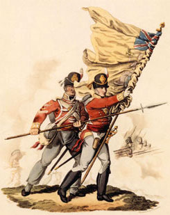 "Uniform & Colours of the 9th or East Norfolk Regiment of Infantry" (hand-coloured aquatint)